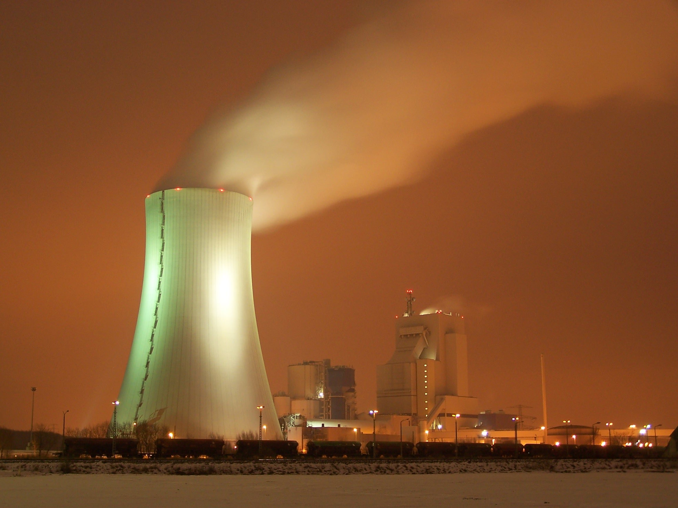 Rostock coal-fired power station at night